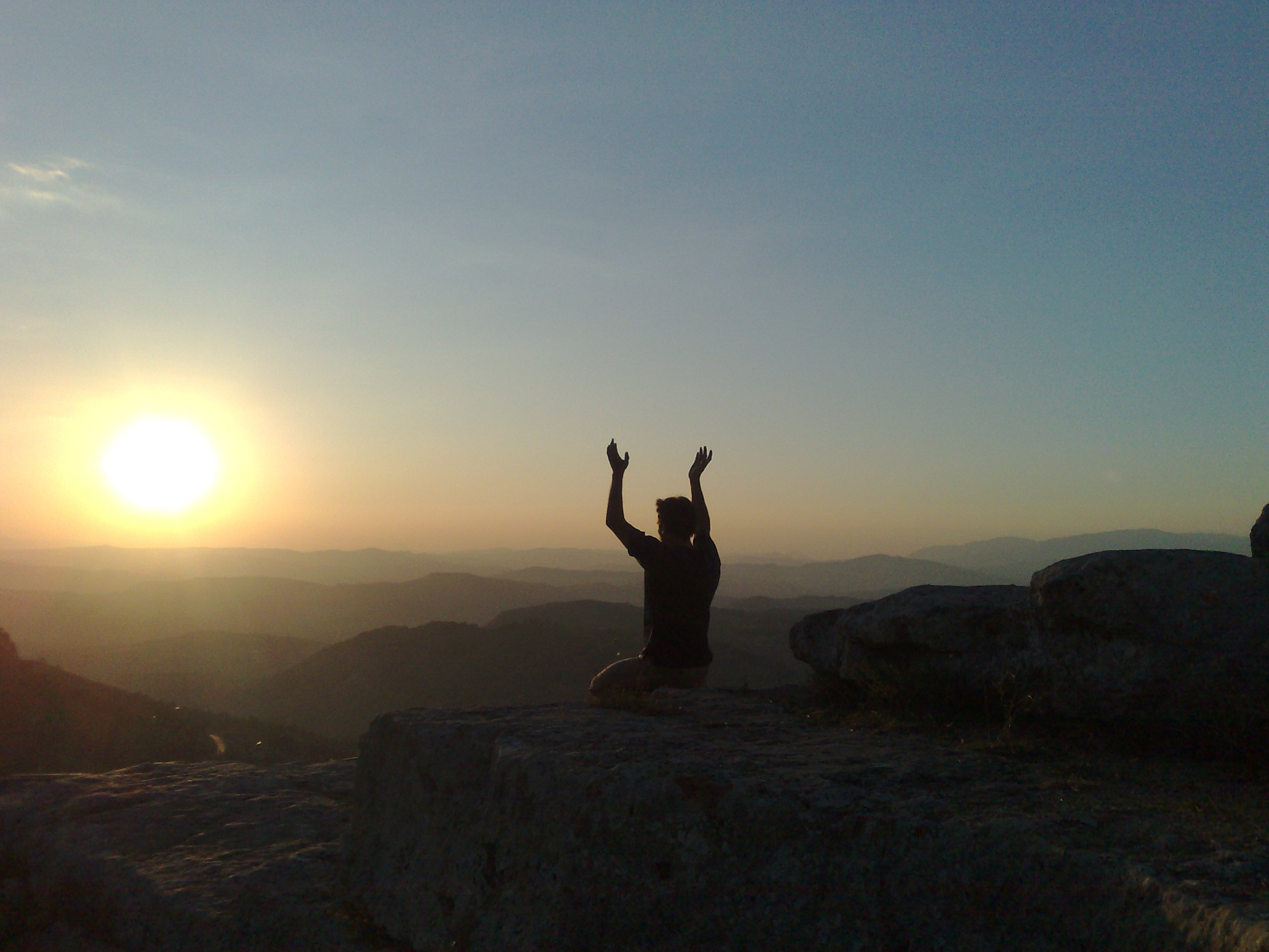 Neopagan meditation in Rocca di Cerere (Enna)